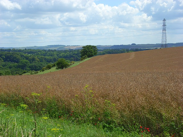 Farmland and pylon, Woodford A field of rape above Camp Down.